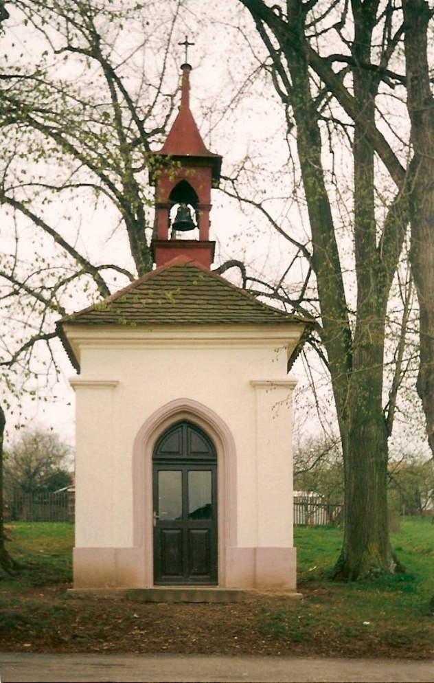 Chapel of Virgin Mary in Úherčice, Czech Republic